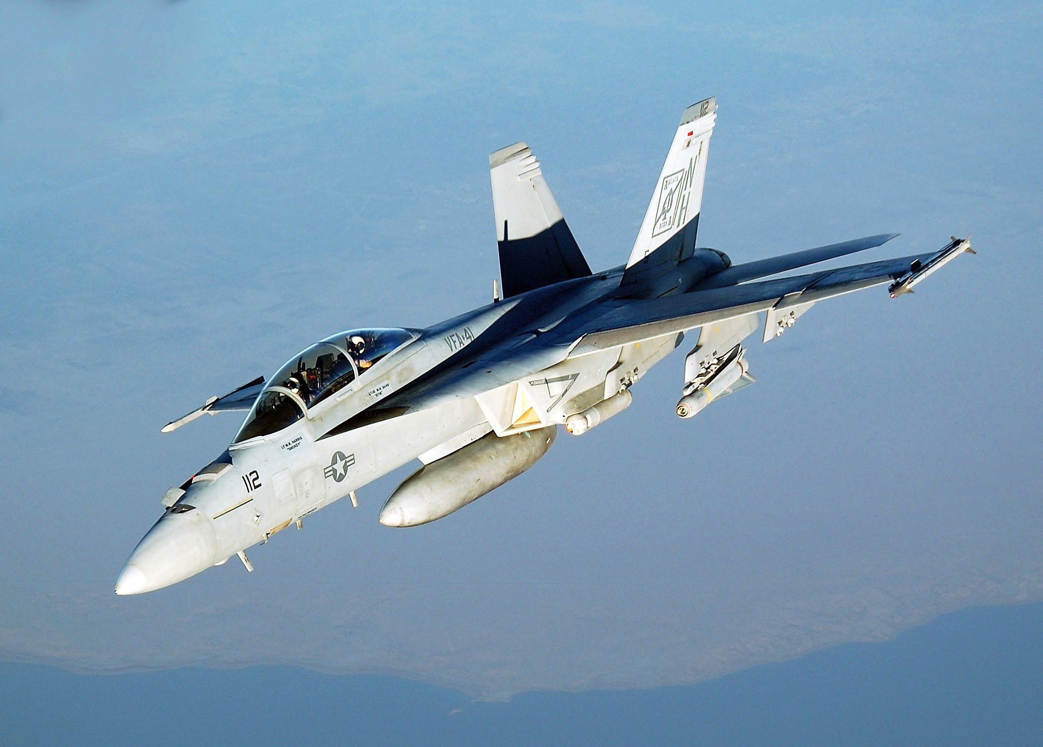 A US Navy (USN) F/A-18F Super Hornet, Strike Fighter Squadron 41 (VFA-41), Black Aces, Naval Air Station (NAS) Lemoore, California (CA), conducts a mission over the Persian Gulf. The Hornet is armed with an AIM-9 Sidewinder missile on the wingtip and an AGM-65 Maverick missile on the pylon. Tucked under the intake is an AN/ASQ-228 ATFLIR (Advanced Targeting Forward Looking InfraRed) pod. Also under the fuselage, a 370-gallon External Fuel Tank. The VFA-41 is currently embarked aboard the USN Aircraft Carrier USS NIMITZ (CVN 68). The Nimitz Carrier Strike Group (CSG) is currently on a regularly scheduled deployment in support of the Global War on Terrorism (GWOT).